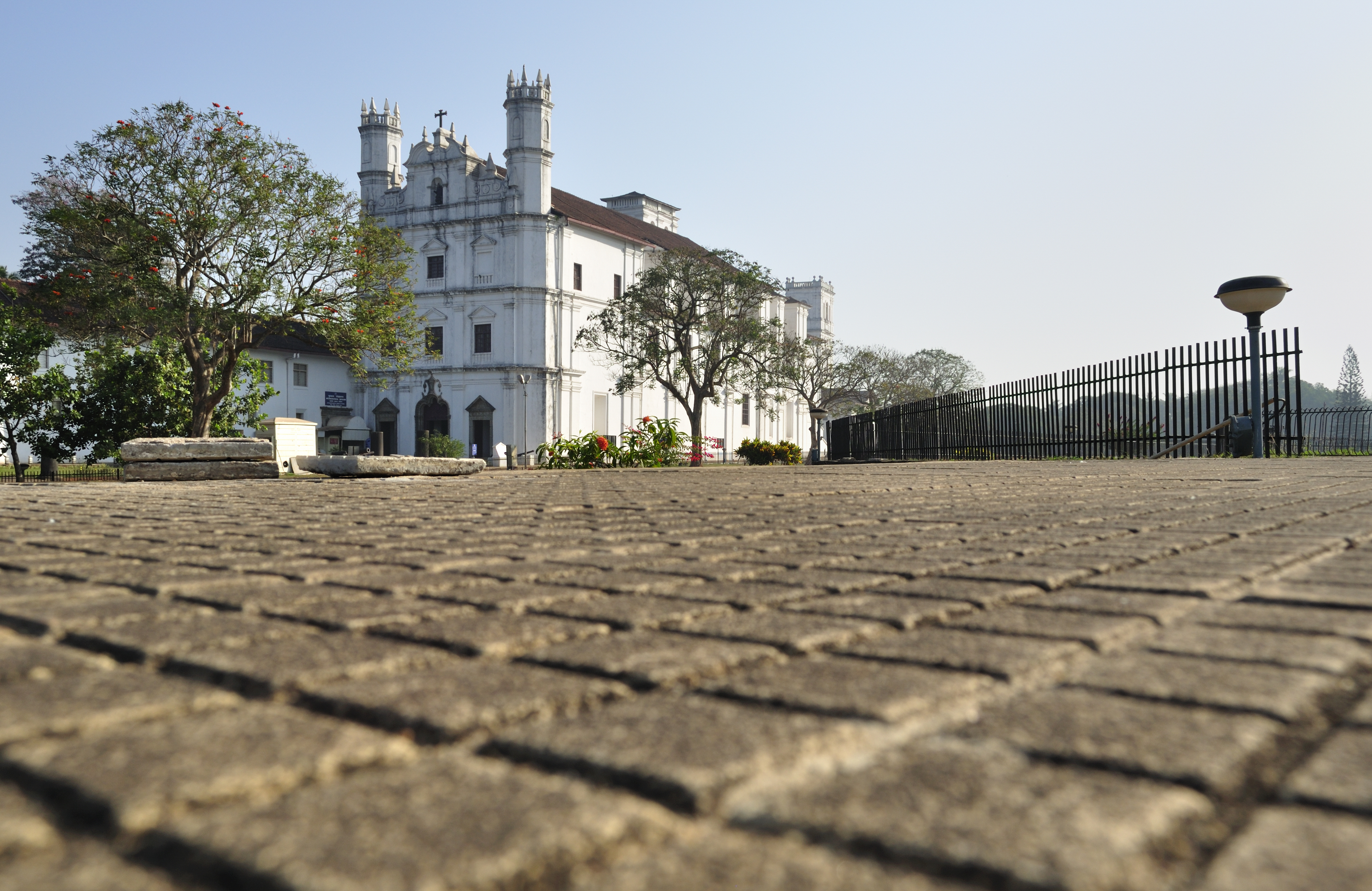 The Church of St. Francis of Assisi was built in 1661 by the Portuguese in the Portuguese Vice-royalty of India. More information is available here: The photograph attempts to capture the church and its surrounding environments in the morning.